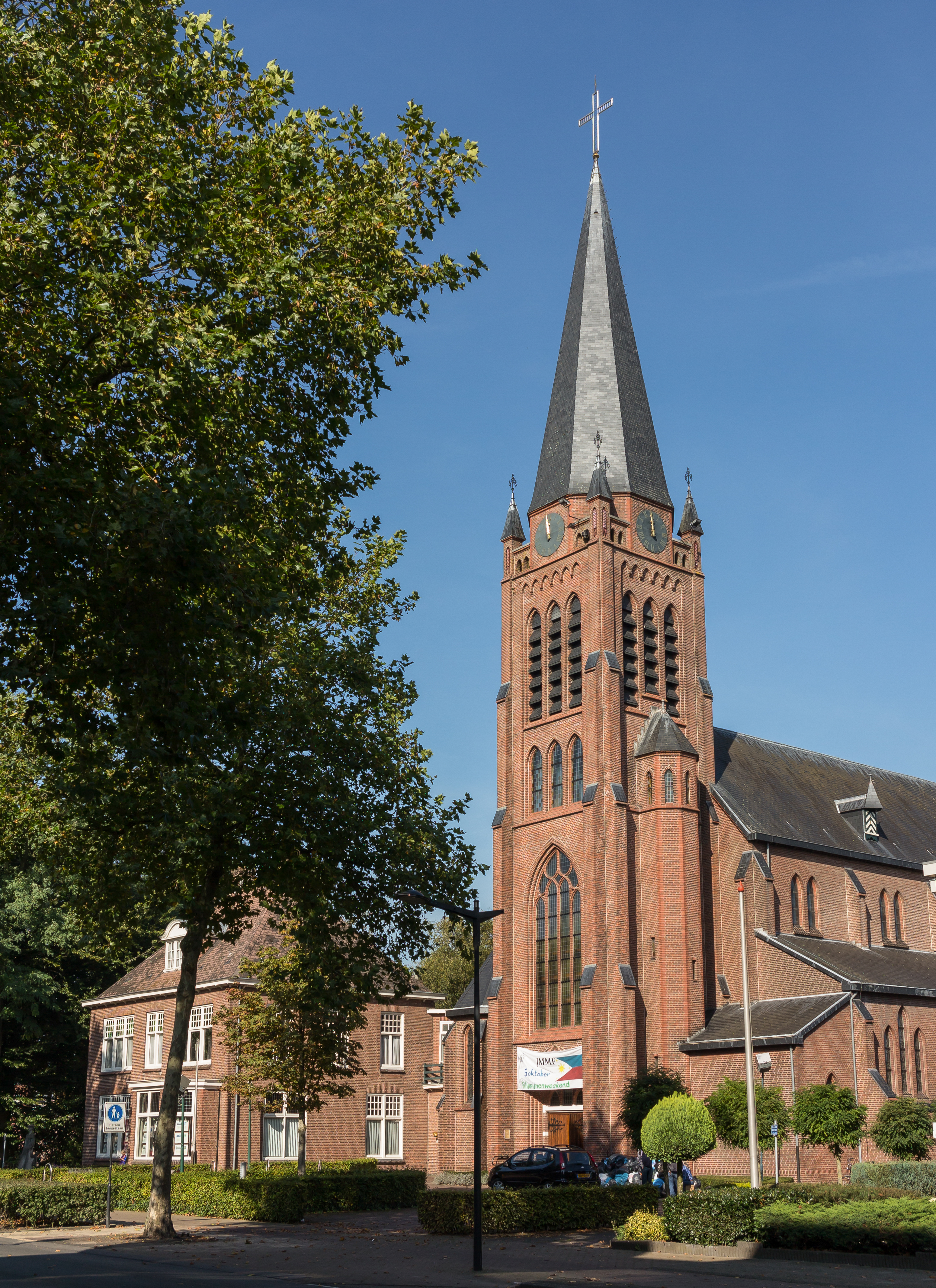 Nijverdal, church: de Antonius van Paduakerk